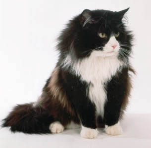 Norwegian Forest Cat with its typical winter fur